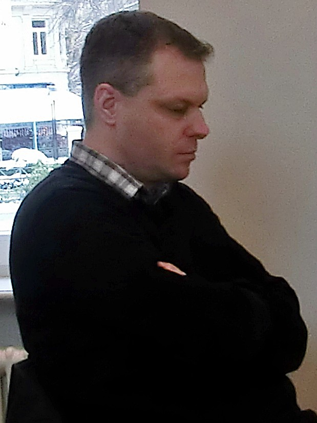 Roland Schmaltz, chess grandmaster from Germany